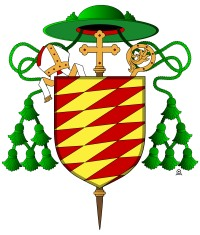 Coat of arms of Hugo Frantisek Königsegg-Rottenfels, Bishop of Litoměřice